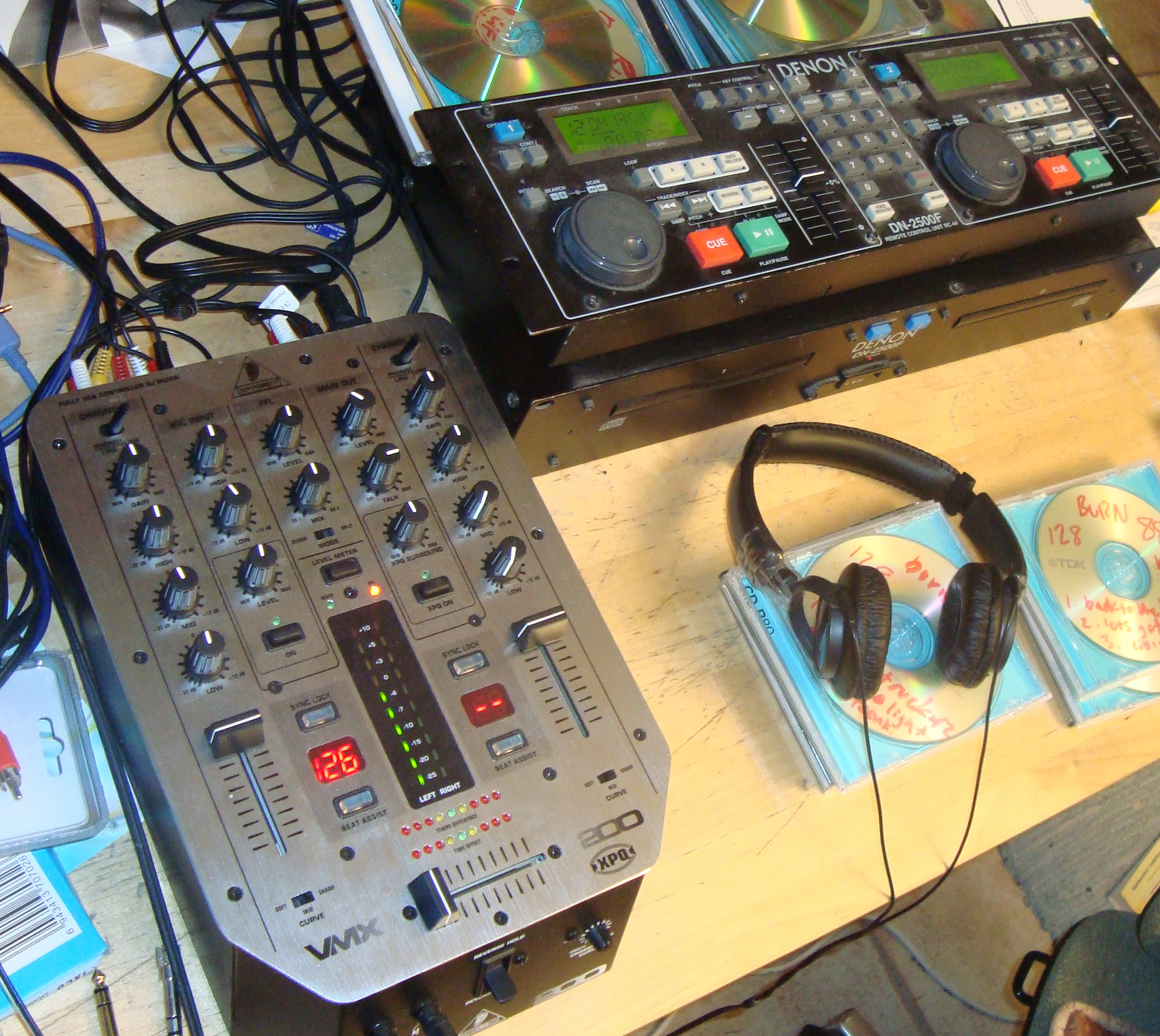 Behringer VMX-200 DJ mixer + Denon DN-2500F dual CD player + RC-44 remote controller